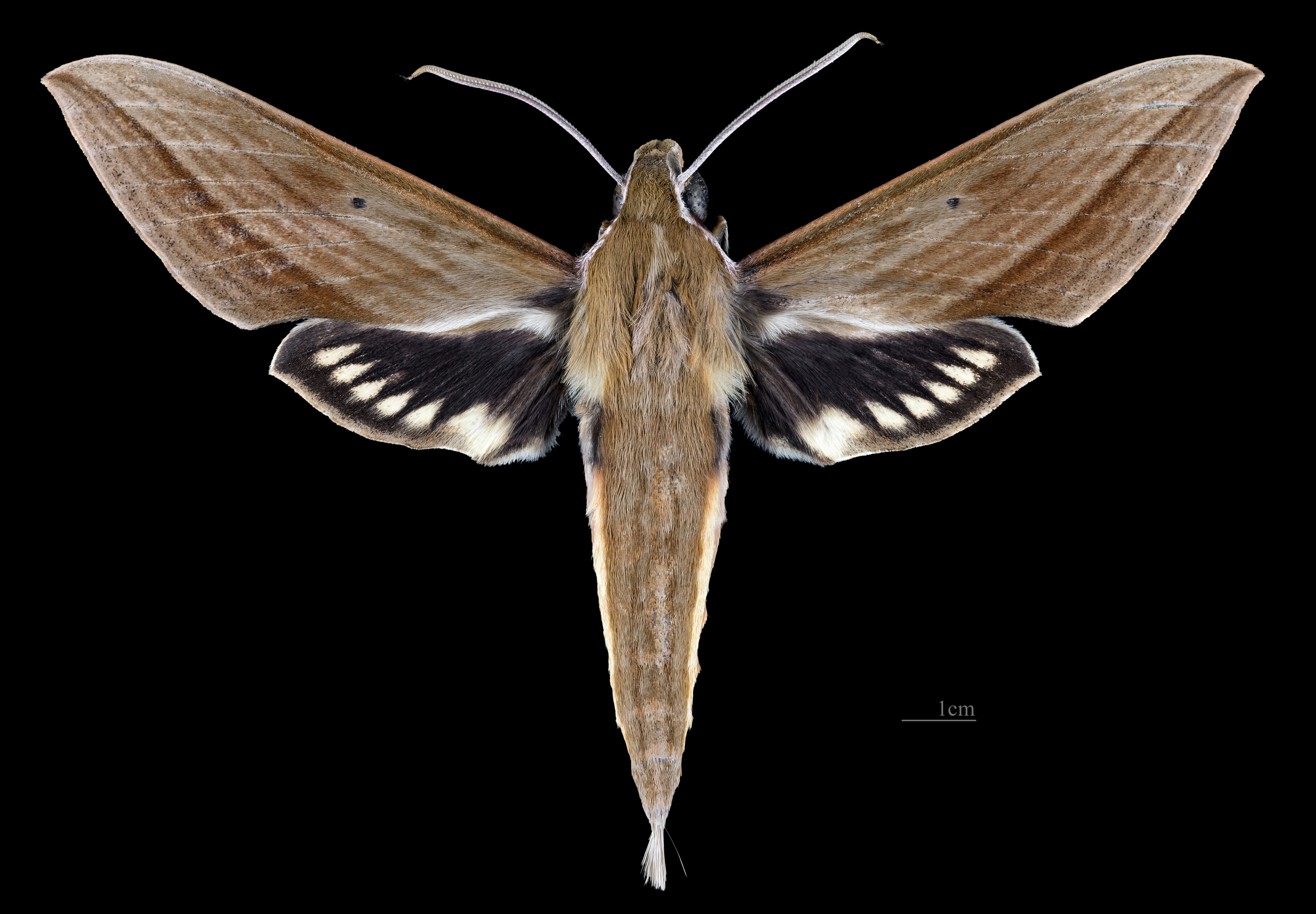 Xylophanes sarae - Dorsal side Collection of the Mathematician Laurent Schwartz